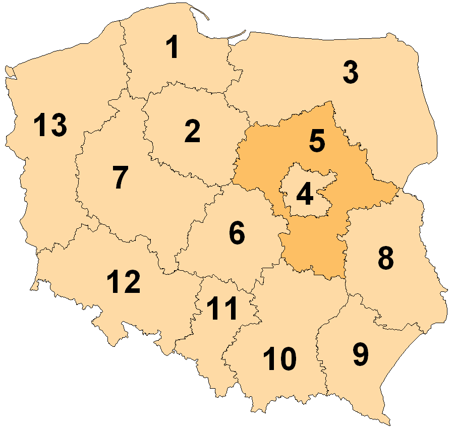 Masovian (European Parliament constituency) - European Parliament constituencie in Poland